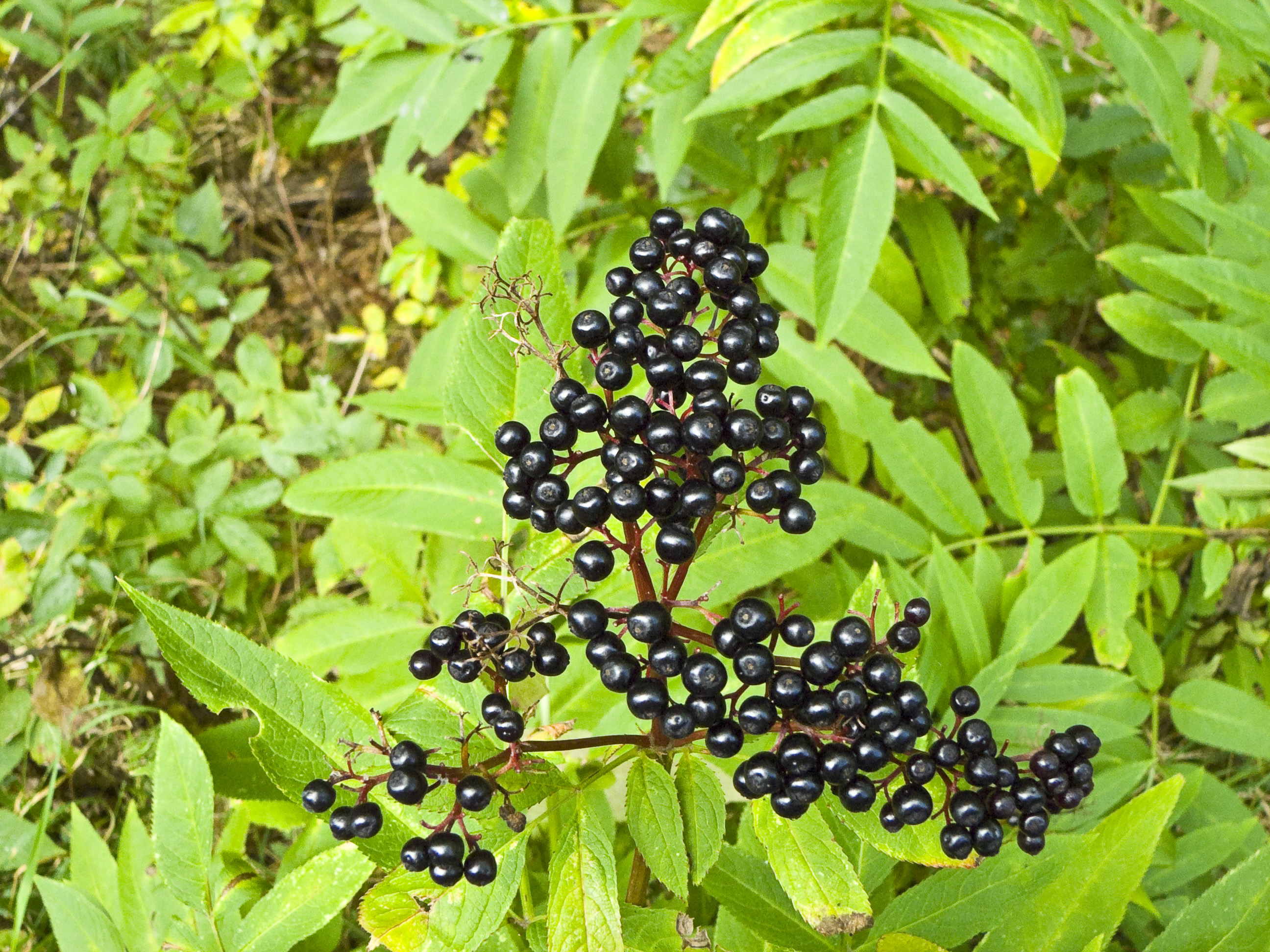 Danewort (Sambucus ebulus), Location: Dünsberg near Gießen, Hesse, Germamy